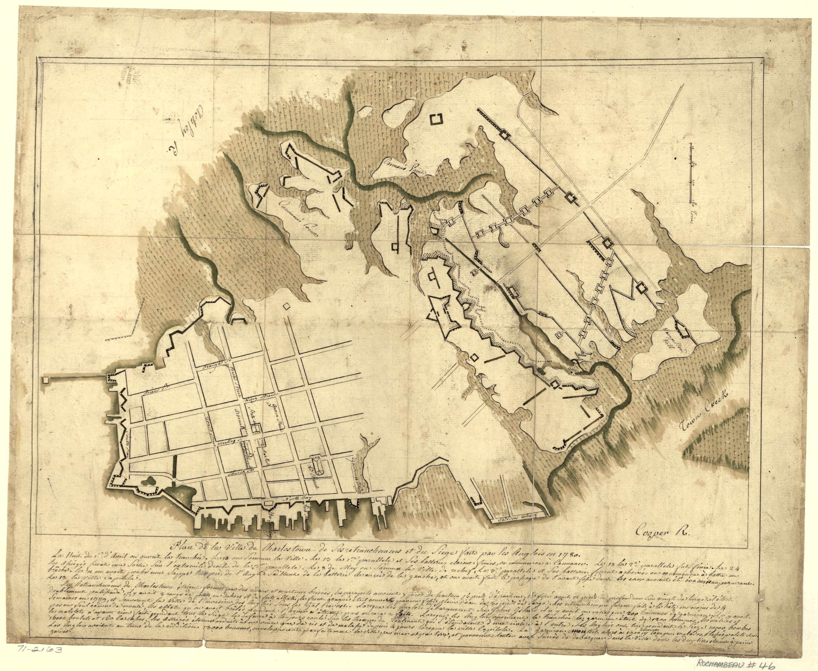 Charleston map